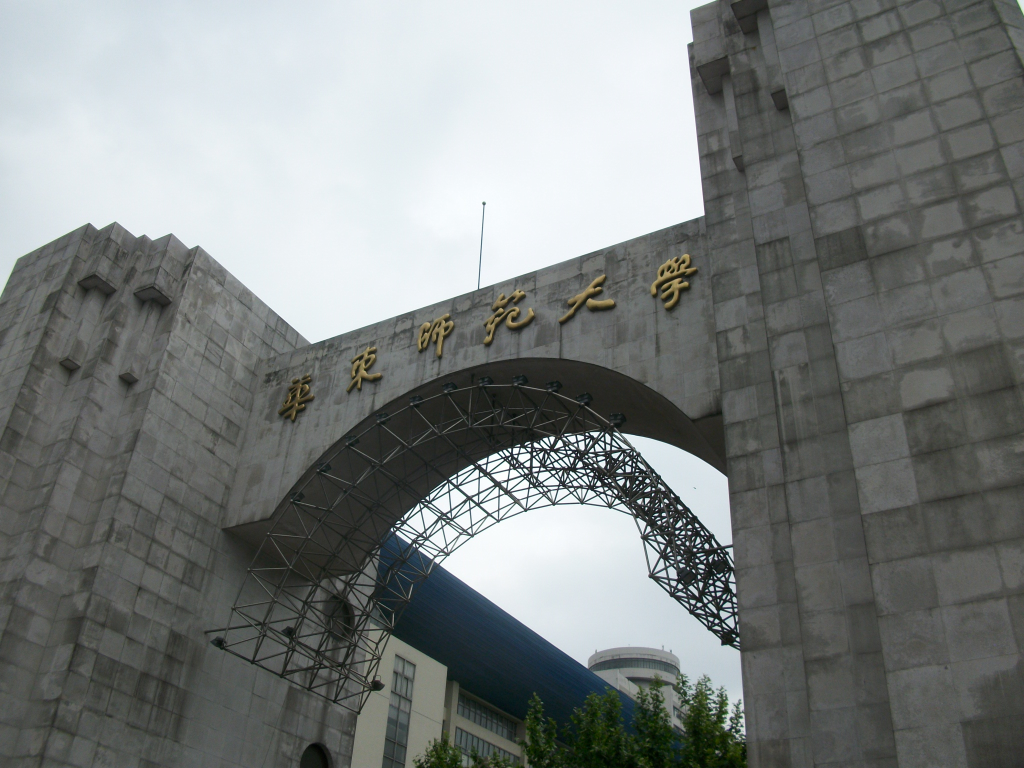 Gate of East China Normal University North Zhongshan Road Campus.